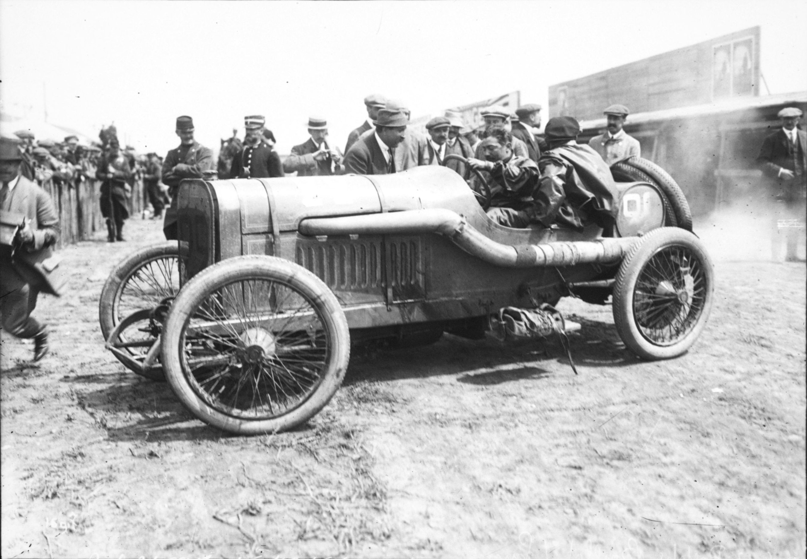 Georges Boillot in his Peugeot at the 1912 French Grand Prix at Dieppe.